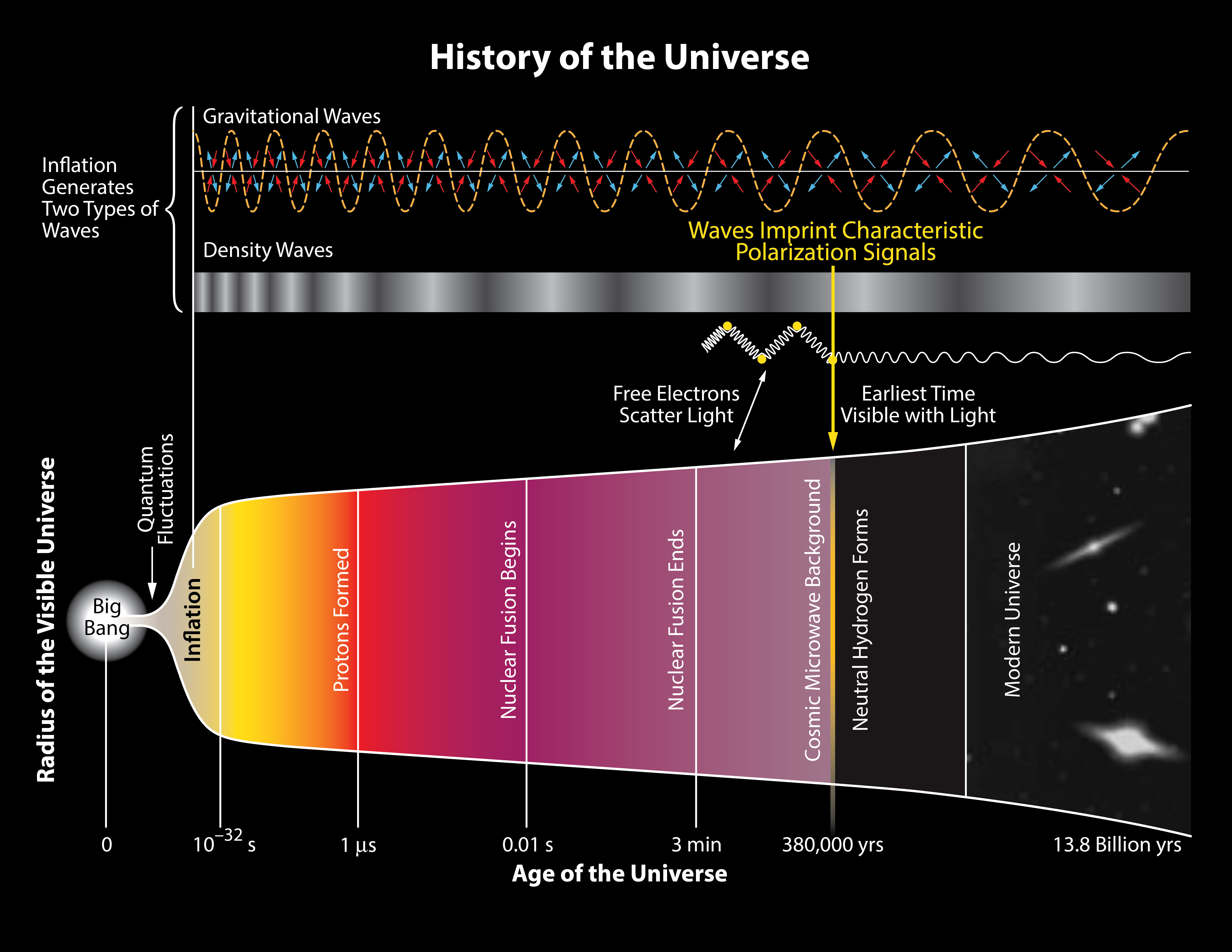 History of the Universe The bottom part of this illustration shows the scale of the universe versus time. Specific events are shown such as the formation of neutral Hydrogen at 380 000 years after the big bang. Prior to this time, the constant interaction between matter (electrons) and light (photons) made the universe opaque. After this time, the photons we now call the CMB started streaming freely. The fluctuations (differences from place to place) in the matter distribution left their imprint on the CMB photons. The density waves appear as temperature and "E-mode" polarization. The gravitational waves leave a characteristic signature in the CMB polarization: the "B-modes". Both density and gravitational waves come from quantum fluctuations which have been magnified by inflation to be present at the time when the CMB photons were emitted. National Science Foundation (NASA, JPL, Keck Foundation, Moore Foundation, related) - Funded BICEP2 Program